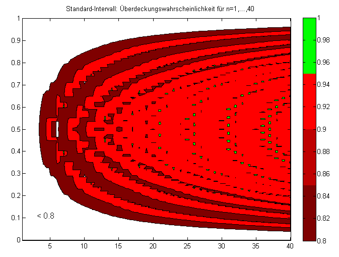 Covering probability for the standard interval for n=1,...,40.